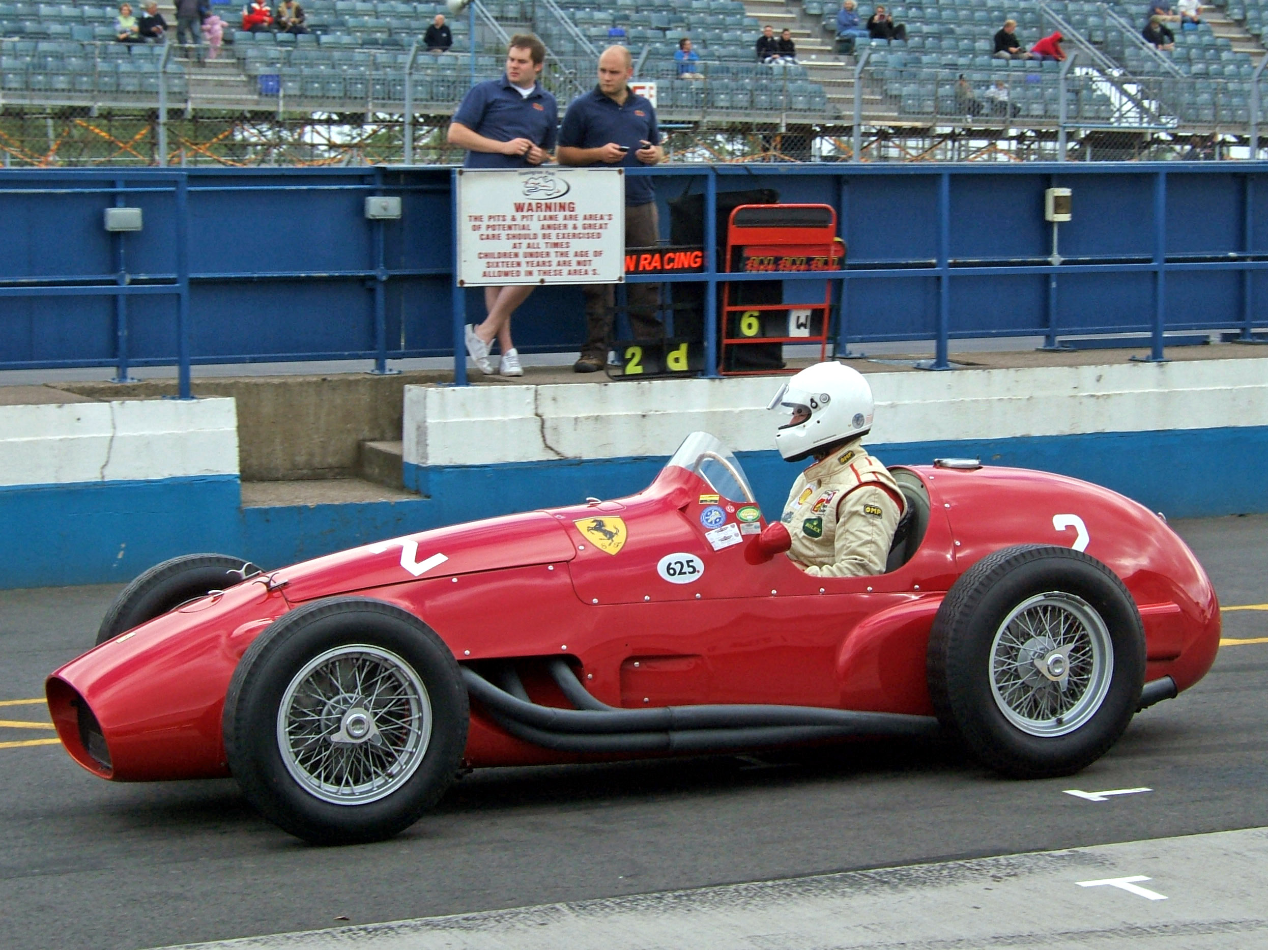 A Ferrari 625 Formula One car enters the pits during the VSCC SeeRed race meeting, Donington Park, September 2007.